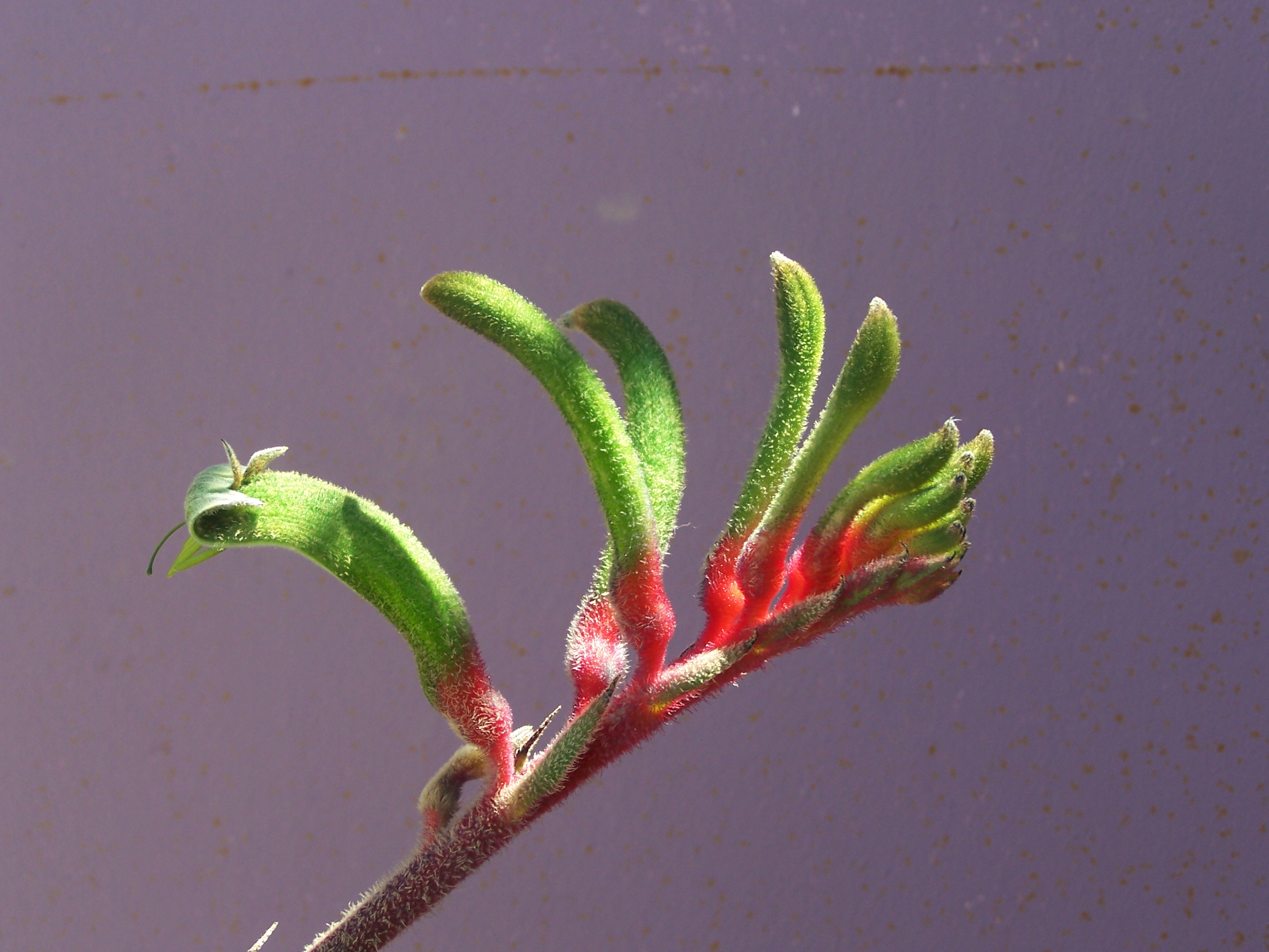 Anigozanthos manglesii , Red and Green Kangaroo Paw , Kangaroo Paw